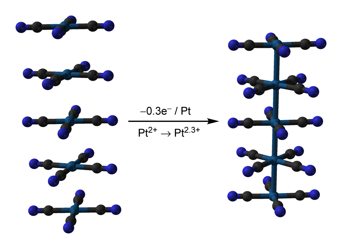 Ball-and-stick model of the change in anion geometry and bonding upon the oxidation of potassium tetracyanoplatinate(II) trihydrate by bromine: K2[Pt(CN)4].3H2O + Br2 → K2[Pt(CN)4]Br0.3·3H2O Upon oxidation, the Pt···Pt separation decreases from 3.48 Å to 2.89 Å, and Pt-Pt bonds form from the overlap of 5dz2 orbitals, creating a delocalised conducting band along the chain axes. X-ray crystallographic data from Inorg. Chem. (1976) 15, 74–78 and Mater. Res. Bull. (1975) 10, 411-415. Model constructed in CrystalMaker 8.1. Image generated in Accelrys DS Visualizer.